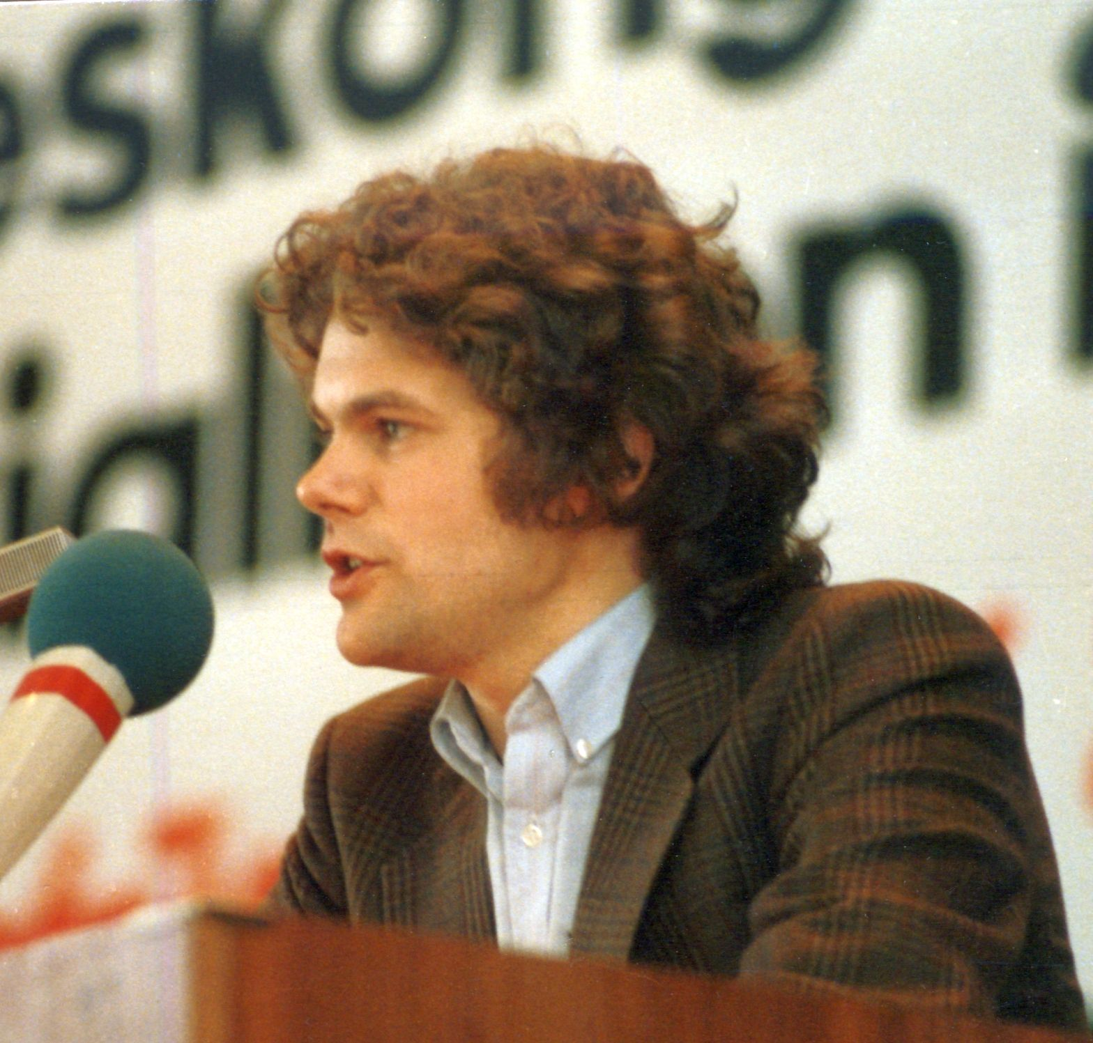 Olaf Scholz on the German Young Socialists Congress in 1984